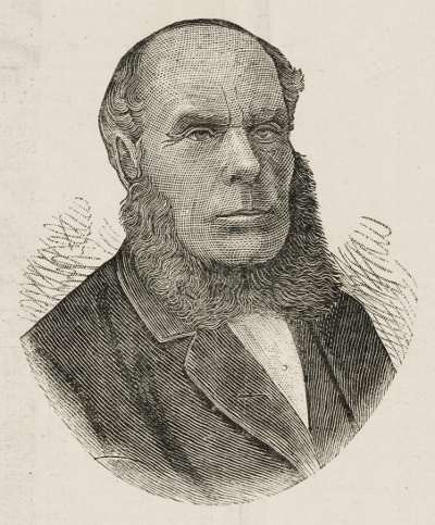 Illustration of Alexander Stuart, Premier of New South Wales.